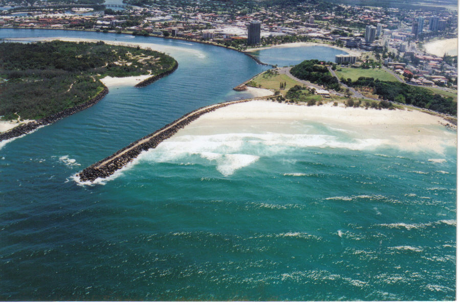 The mouth of the tweed, and duranbah beach from the air. Taken by me in a seaplane